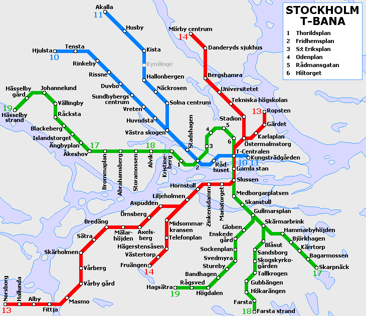 Map of the Stockholm metro.